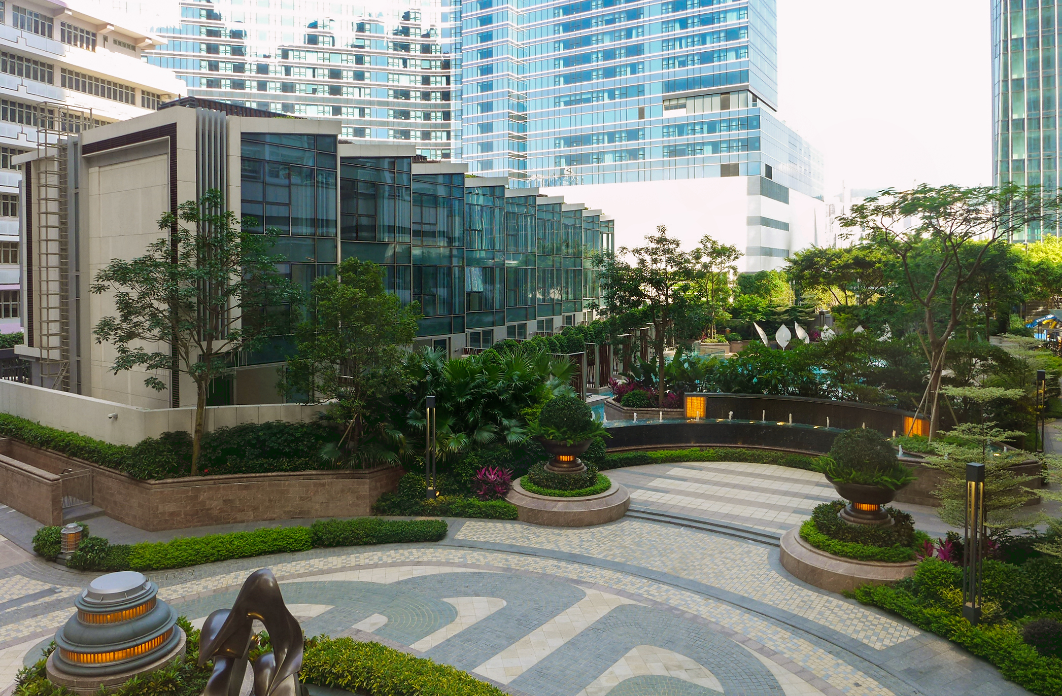 Stars by the Harbour Garden view